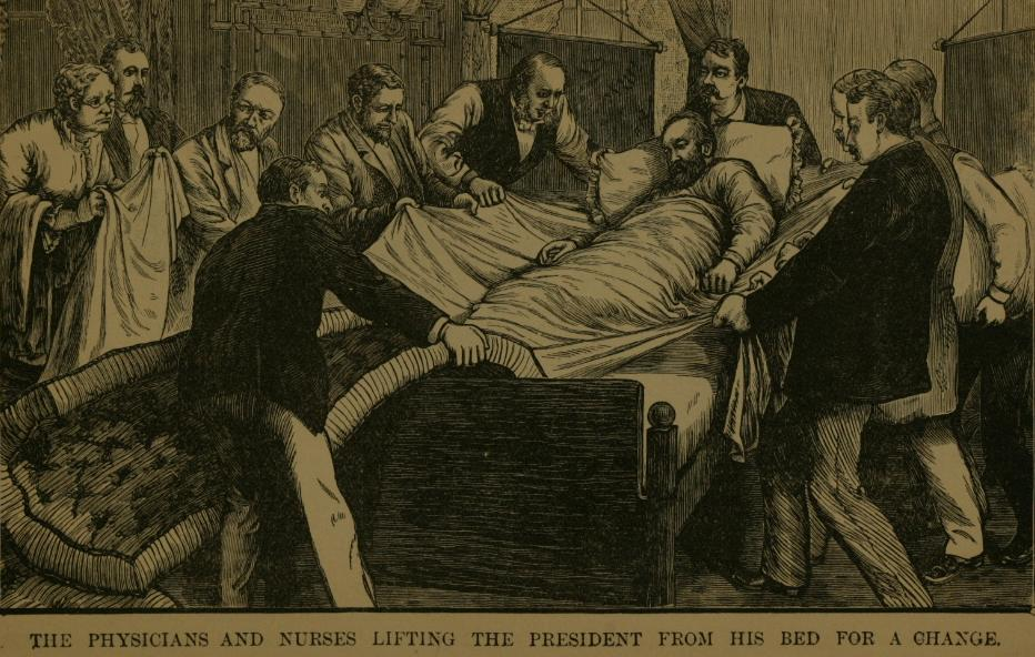 Changing U.S. President Garfield's bedclothes, between when he was shot and when he died